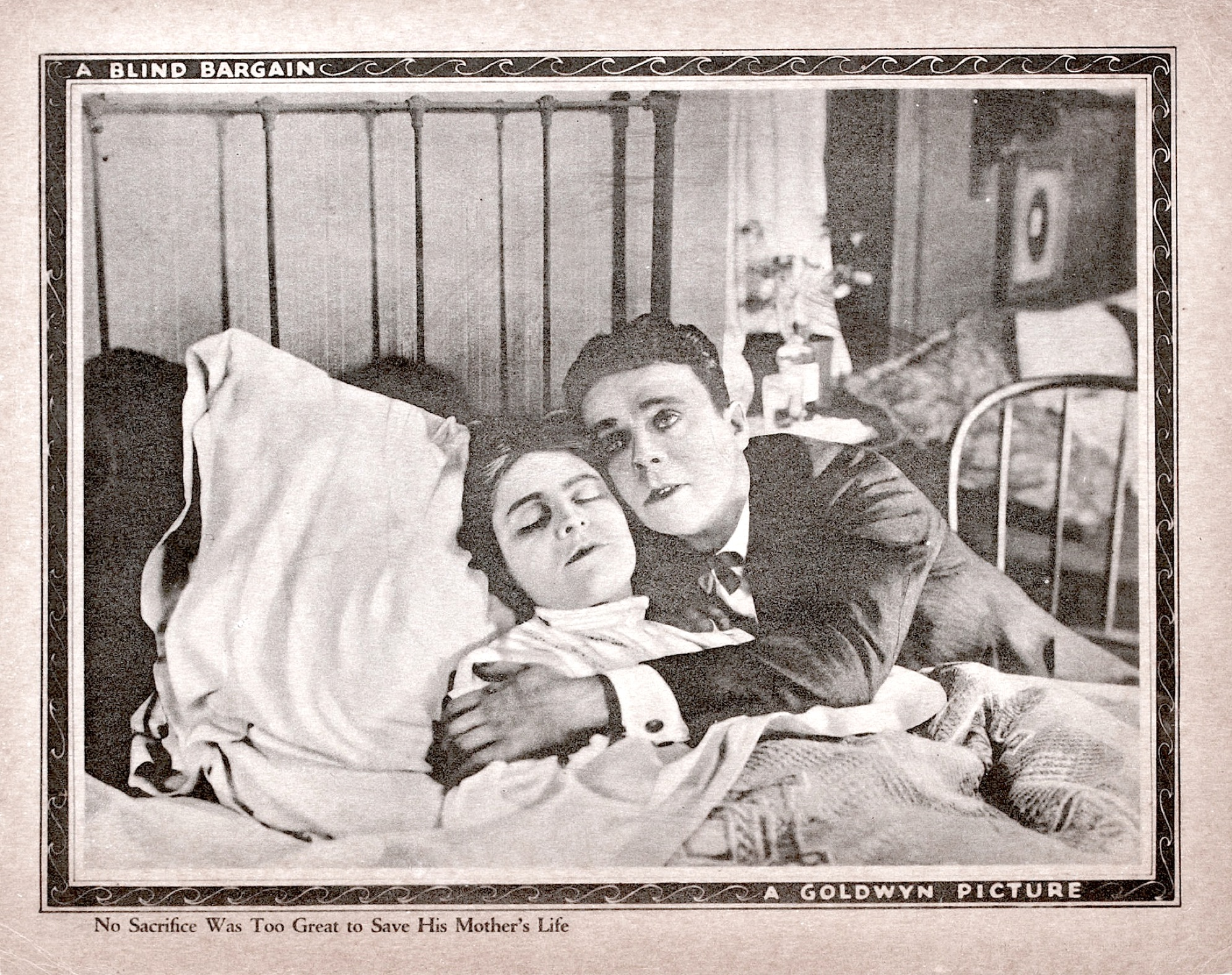 A Blind Bargain was a 1922 American silent horror film starring Lon Chaney and Raymond McKee, released through Goldwyn Pictures. This is a lobby card for the film with Virginia True Boardman as the mother and Raymond McKee.